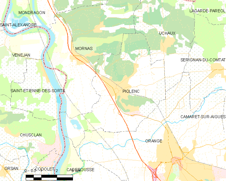 Map of French municipality Piolenc